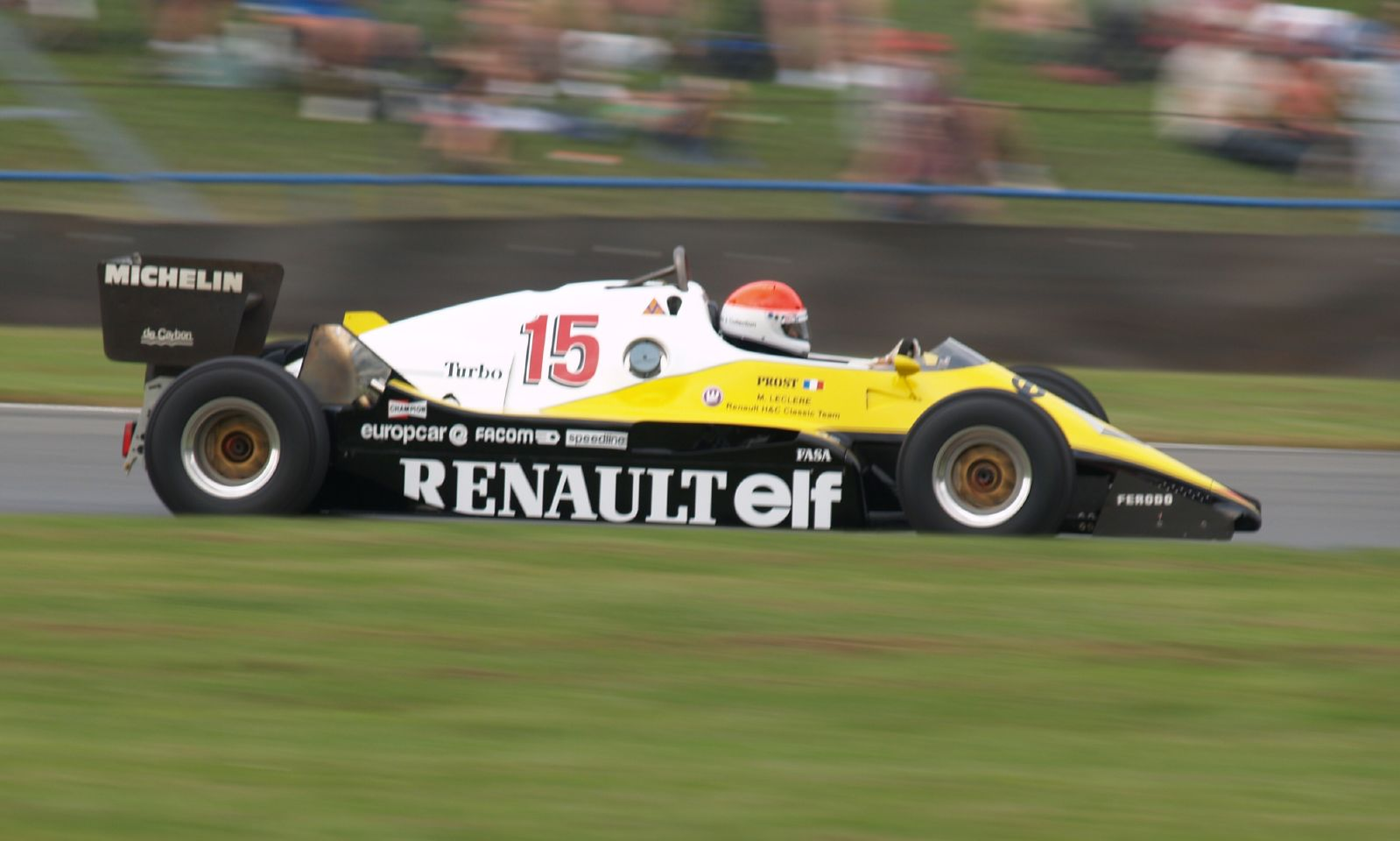 An ex-Alain Prost Renault RE40 Formula One car, being driven by Michel Leclère during the World Series by Renault event at Donington Park, September 2007.